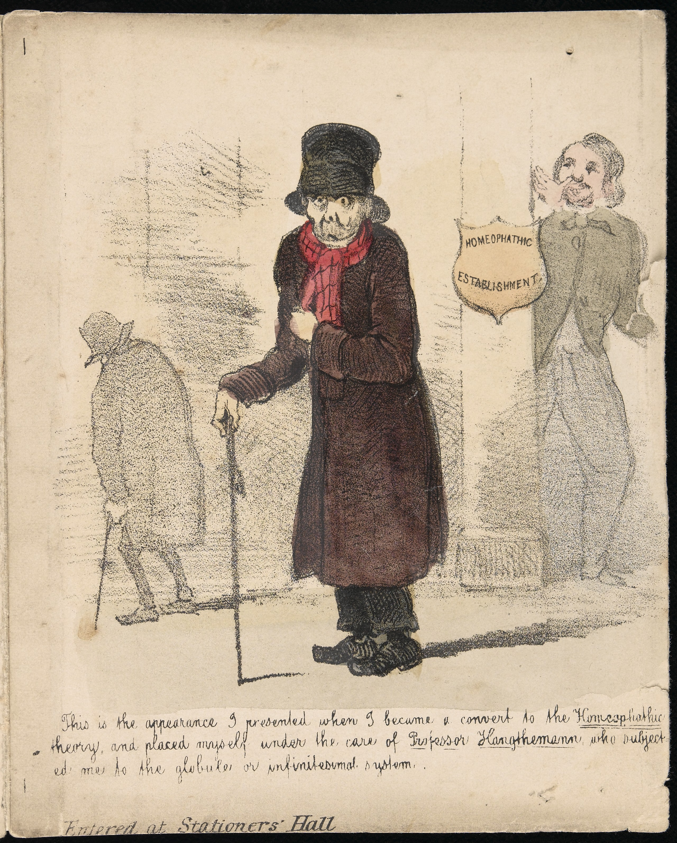 A patient suffering from the effects of homoeopathic treatment. Iconographic Collections Keywords: Therapeutics; Patient; James Morison; Patients; Treatment; Homeopathy